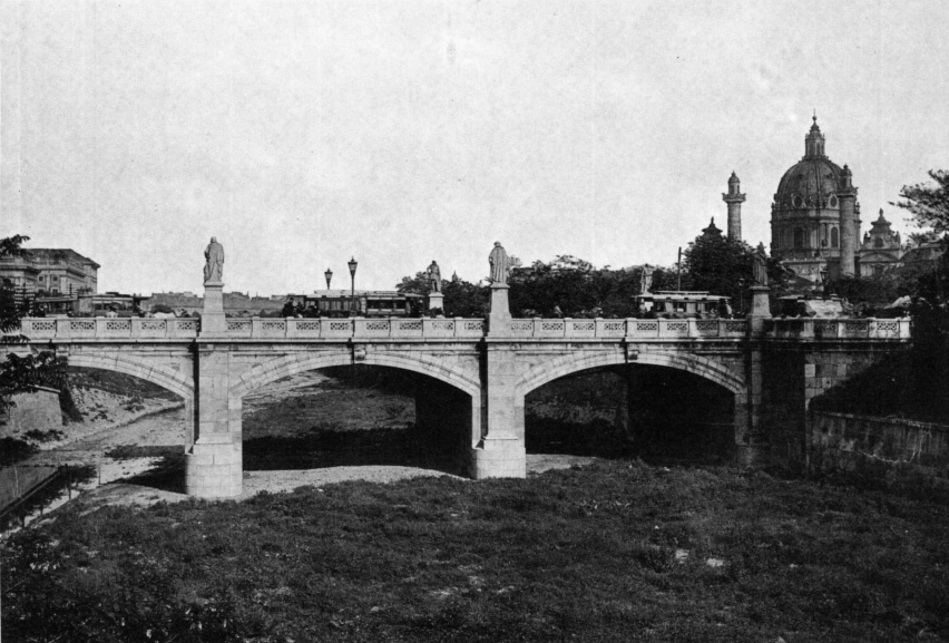 Elisabethbrücke over Wien River, Vienna, app. 1895